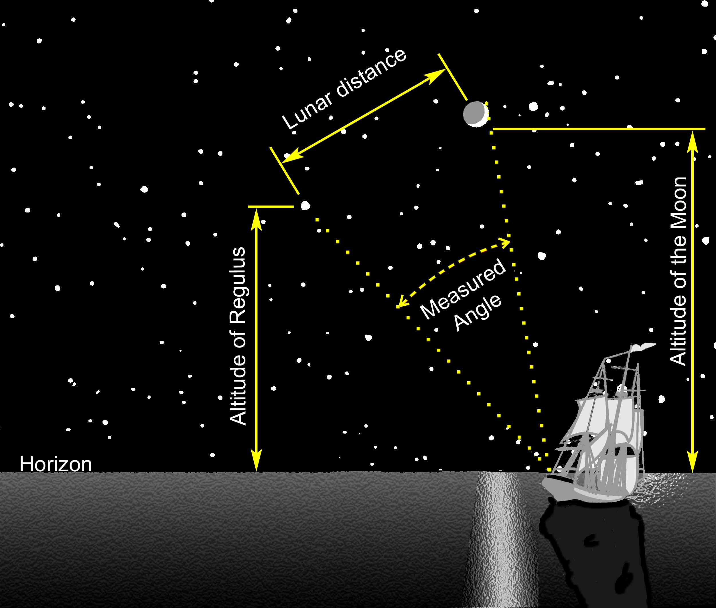 Drawing of lunar method applied on a ship with stars and moon in sky